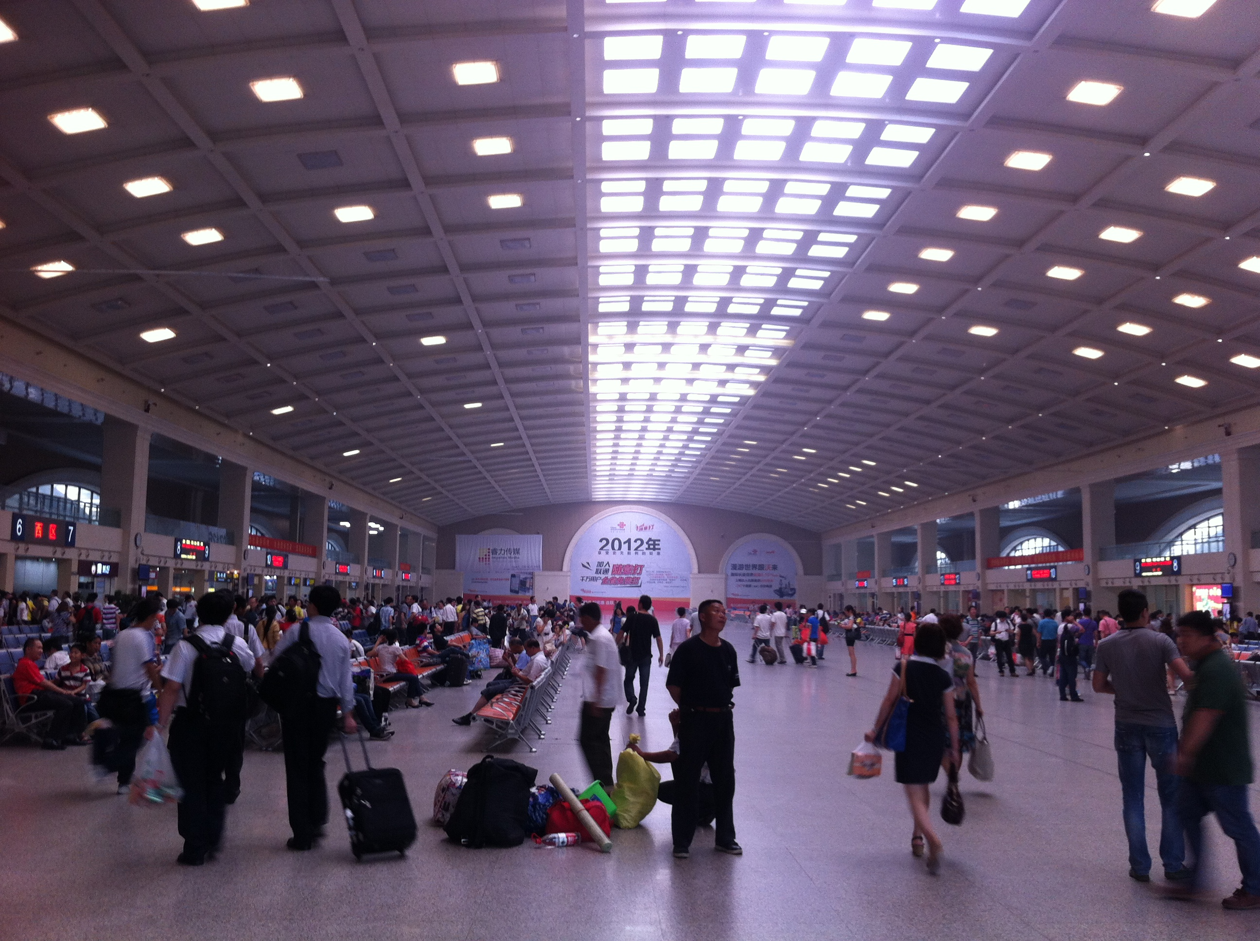 Hankou Railway Station Inside